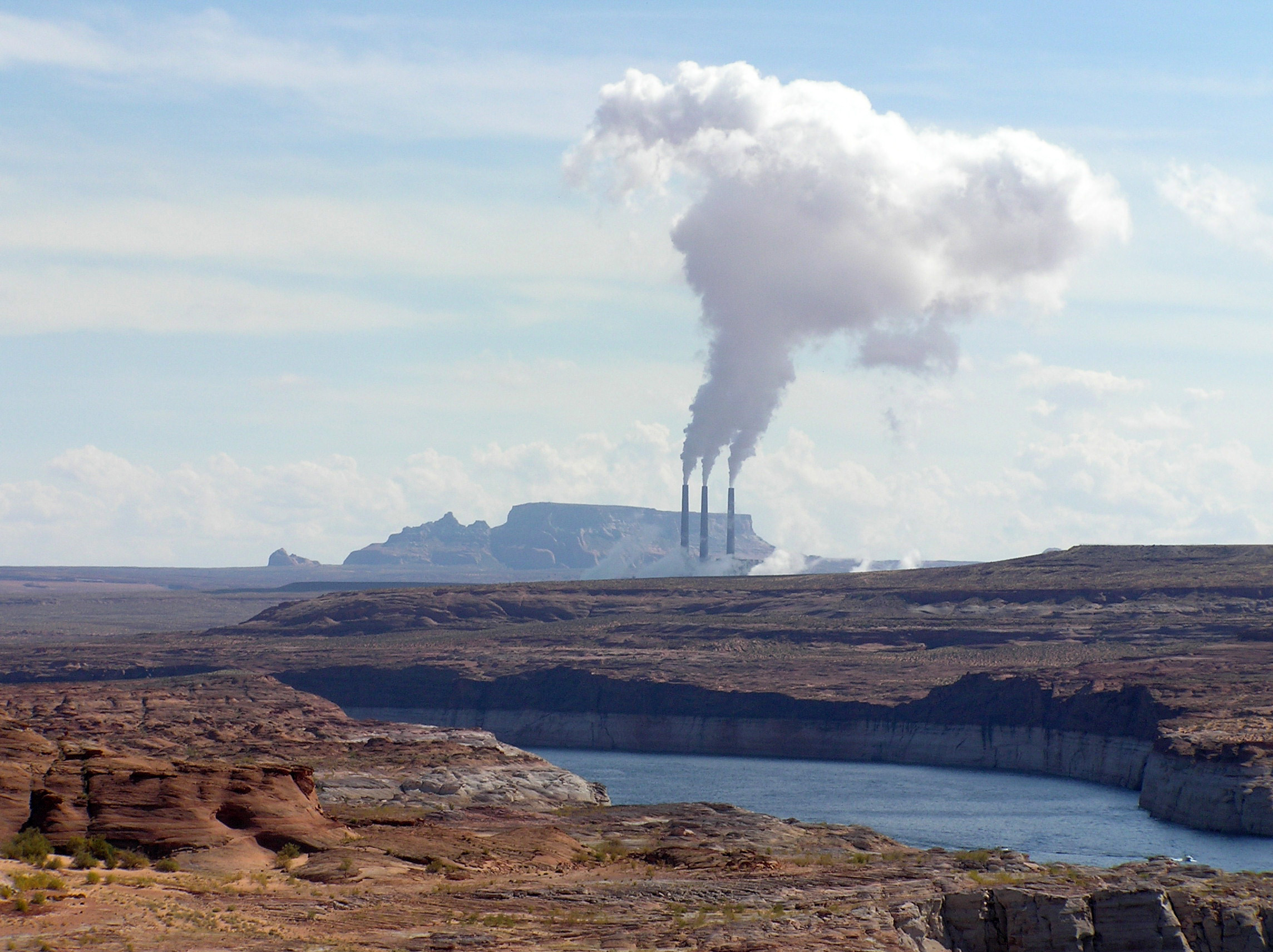 Encompassing over 1.2 million acres, Glen Canyon National Recreation Area (NRA) offers unparalleled opportunities for water-based & backcountry recreation. The recreation area stretches for hundreds of miles from Lees Ferry in Arizona to the Orange Cliffs of southern Utah, encompassing scenic vistas, geologic wonders, and a vast panorama of human history.